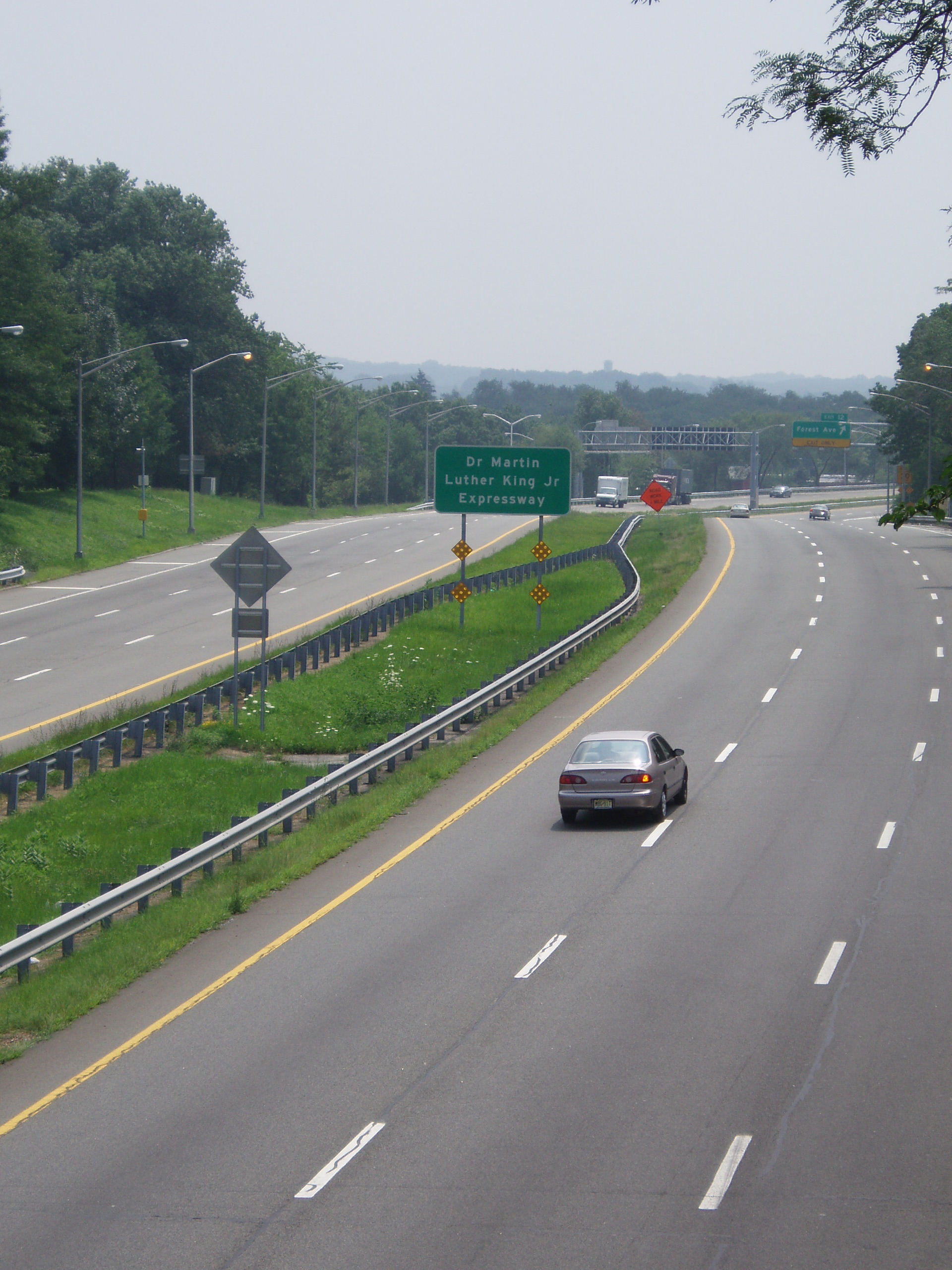 The Dr. Martin Luther King, Jr. Expressway, facing south from Walker Street. I took this photograph.